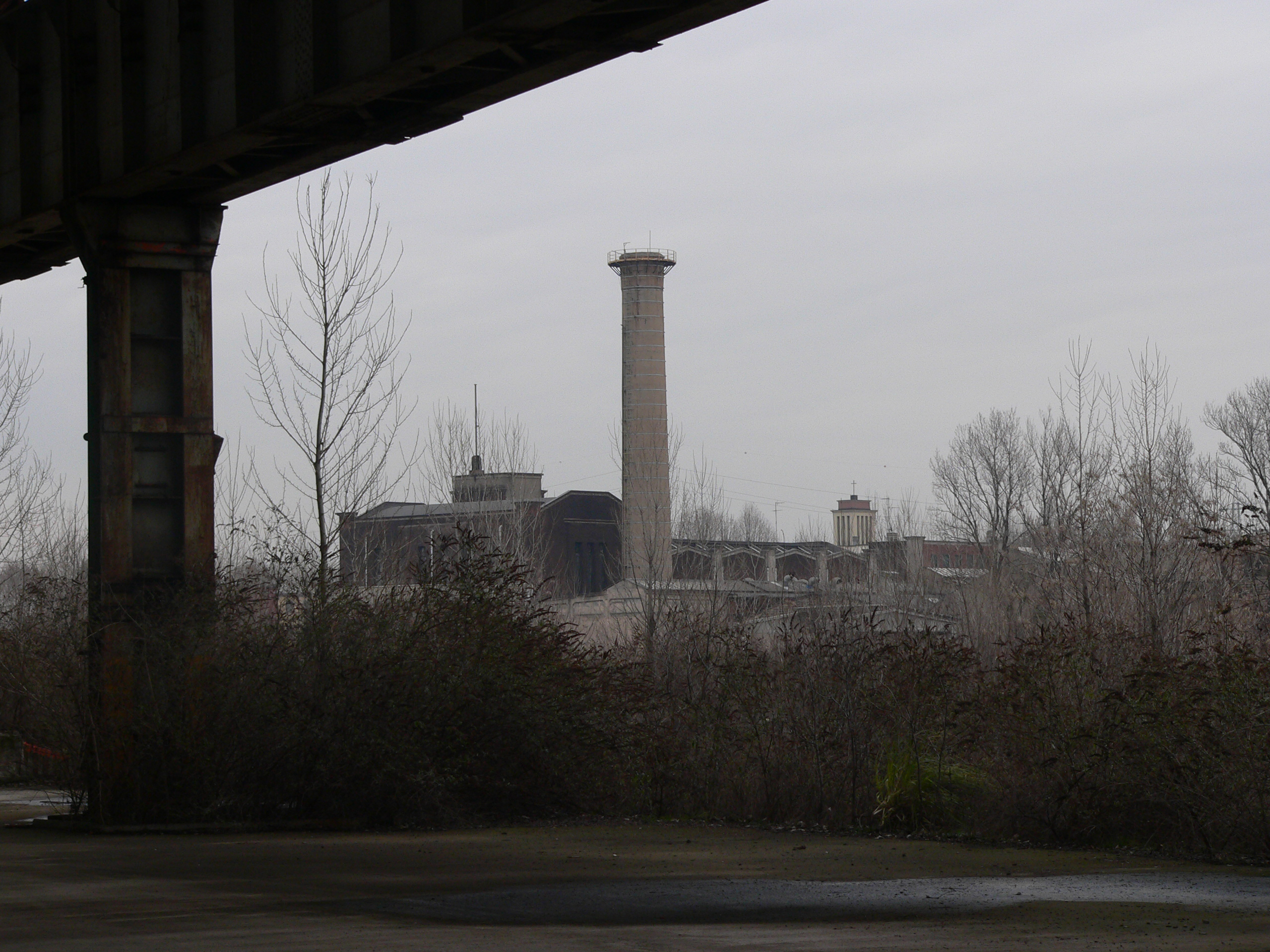 The Thermal Power Station - former Falck Unione area The Thermal Power Station, designed by engineer A. Mella in 1930, originally functioned as an electricity power station for the distribution of power to the Falck factories. In the ‘60s it was given over to offices. The station produced electricity and was fuelled by gas or oil. The Falck and other industries in Sesto San Giovanni demanded an enormous quantity of electrical power. Particular care was taken with the architectural design of the building, so as to attribute it a somewhat prestigious role within the production complex it is part of. The building remains a distinctive element of its urban setting. The Power Station is nowadays placed in a brownfield area. It is part of the project of Sesto San Giovanni per l'UNESCO, as one of the buildings of the application for inscription on the world heritage list for humanity in the evolving cultural landscape category. This is a photo of a monument which is part of cultural heritage of Italy.